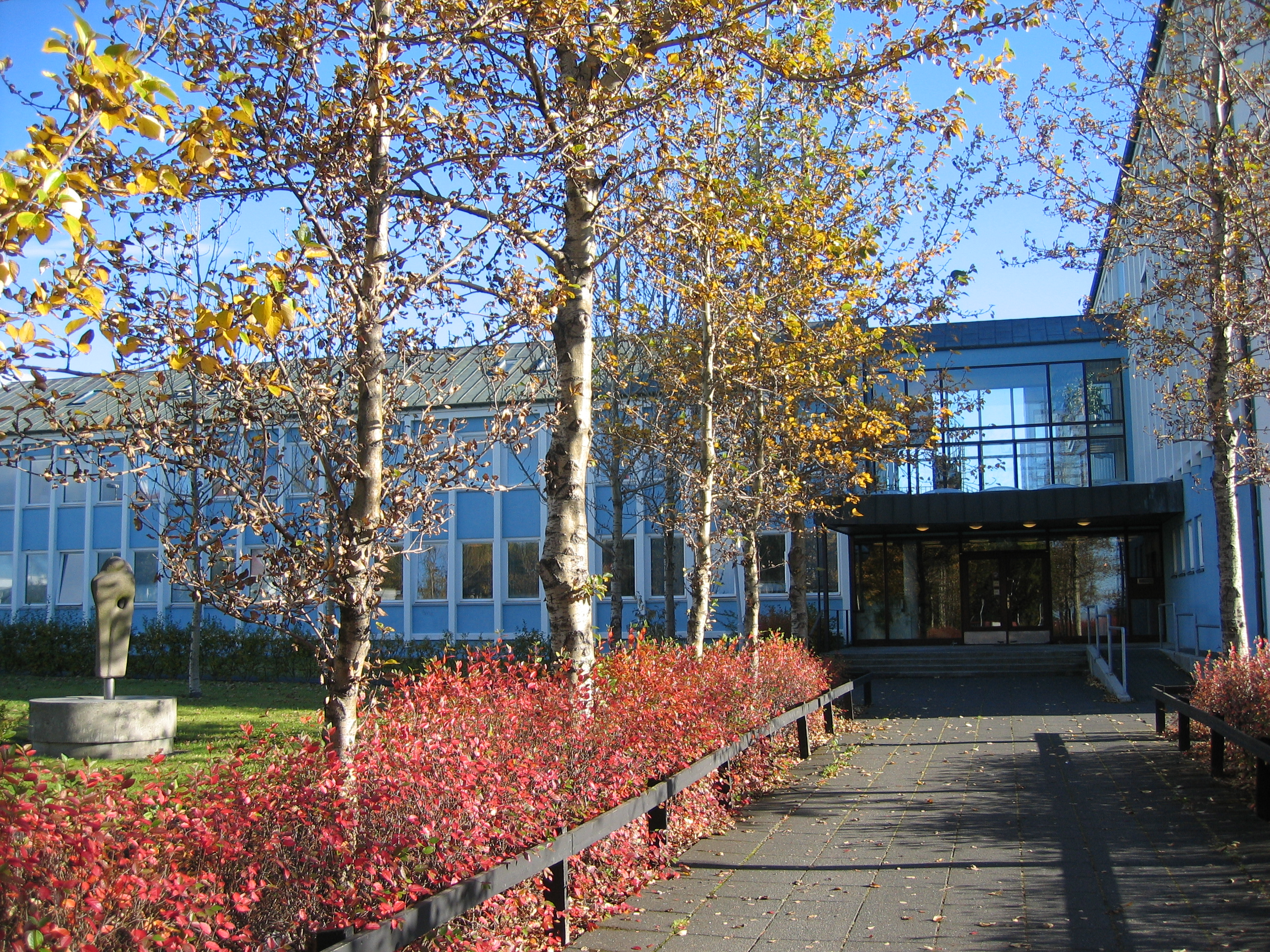 Kennaraháskóli Íslands, Stakkahlíð, Reykjavík, Iceland Iceland University of Education, Stakkahlíð